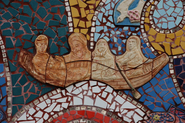 Mosaic, Bangor harbour (2) See 344026. This one depicts (I think) St Comgall and some monks from Bangor abbey (of which he was the founder and abbot).